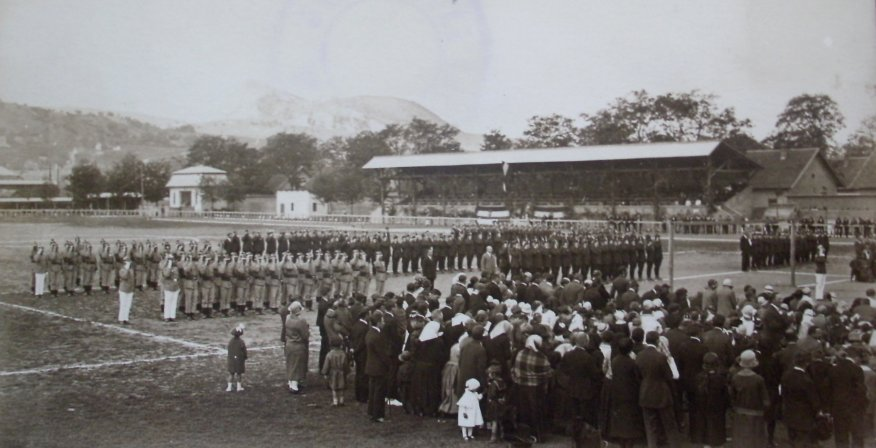 Army celebration in stadium